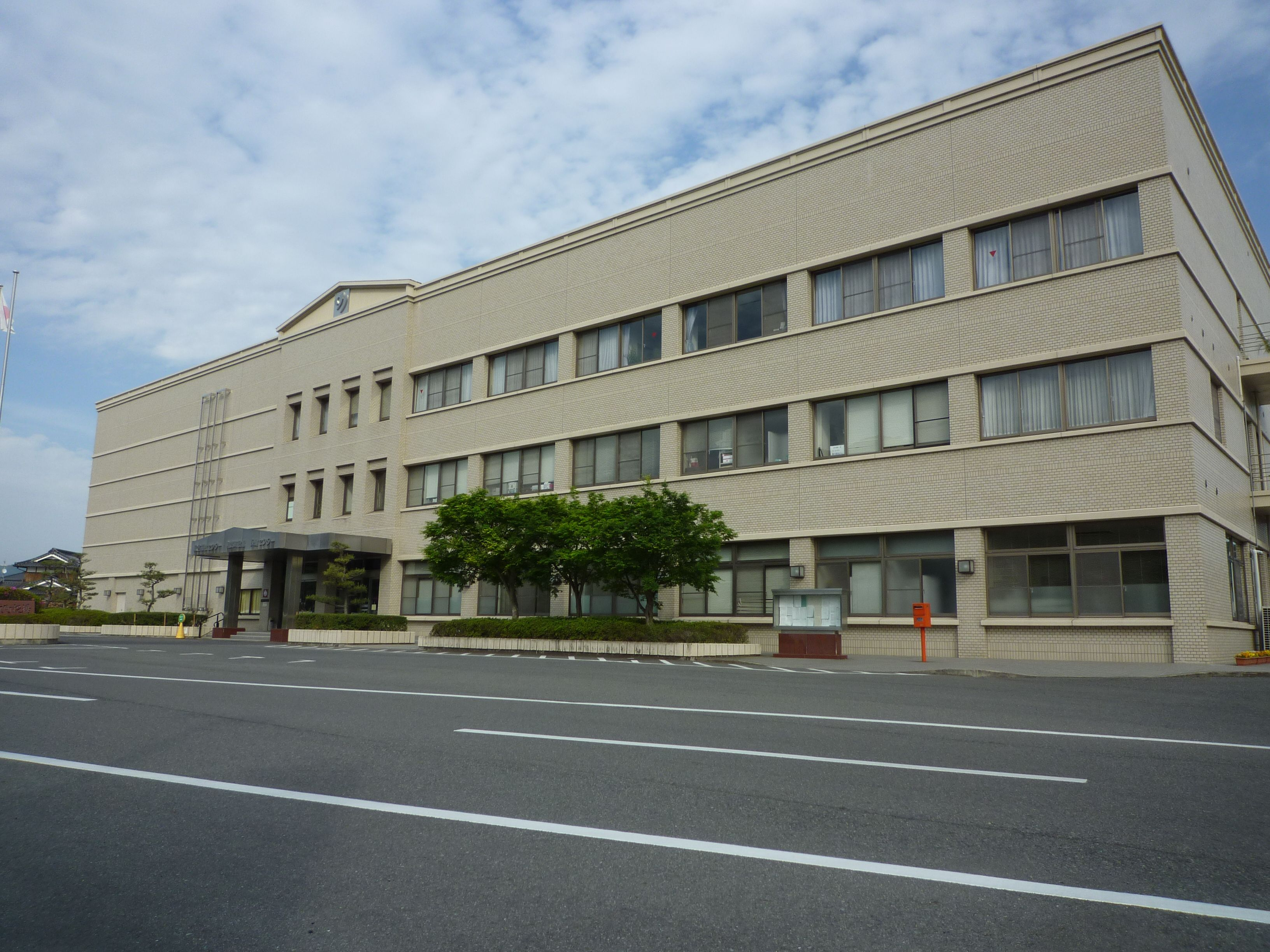 Wake town office (Wake Town, Okayama Pref, JPN)